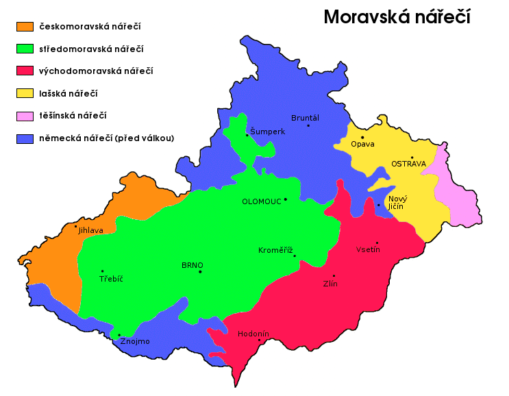 Moravian and silesian dialects of the Czech language